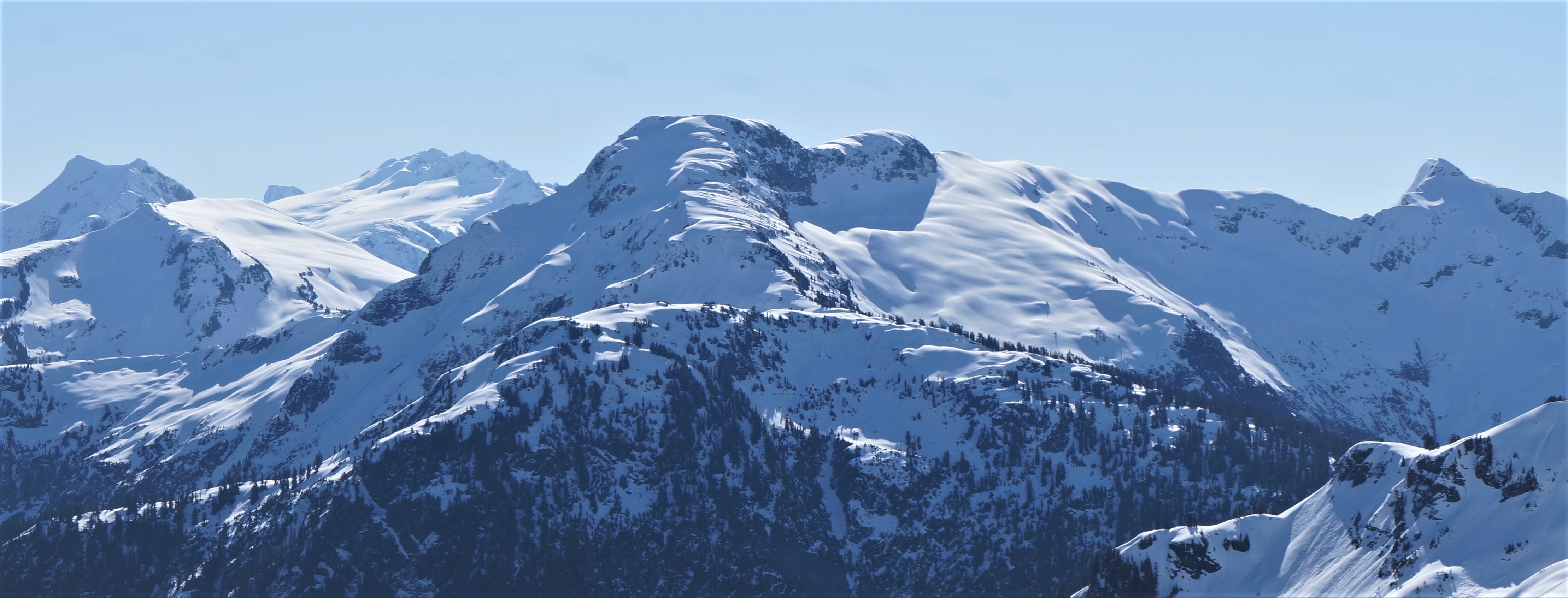 North Cascades, Mineral Mountain seen from WNW near Ruth Mountain